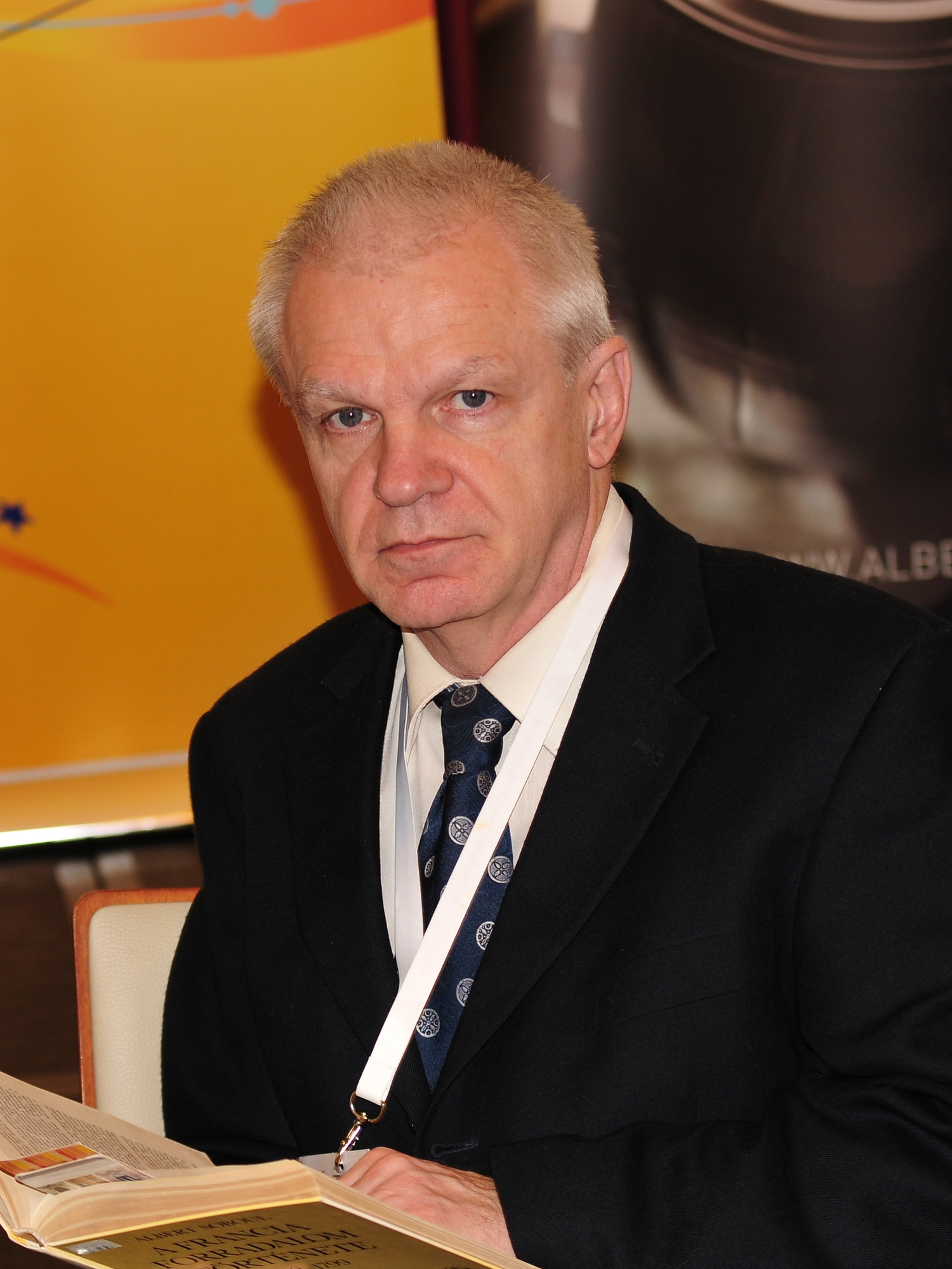 GM Zoltán Ribli, European Chess Team Championship Warsaw 2013